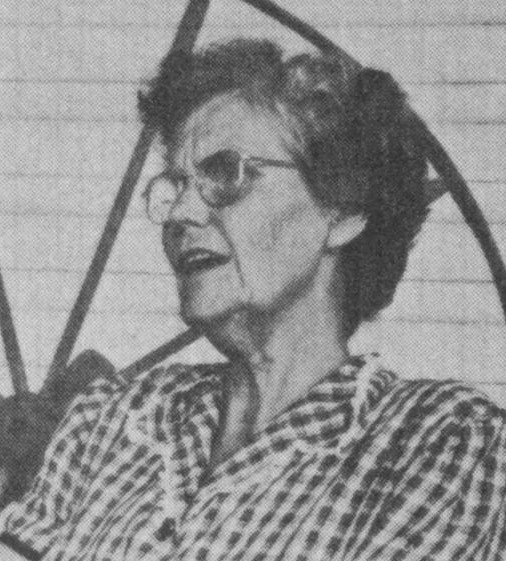 Almeda Riddle (no copyright notice could be found anywhere on the original source, thus public domain is assumed)